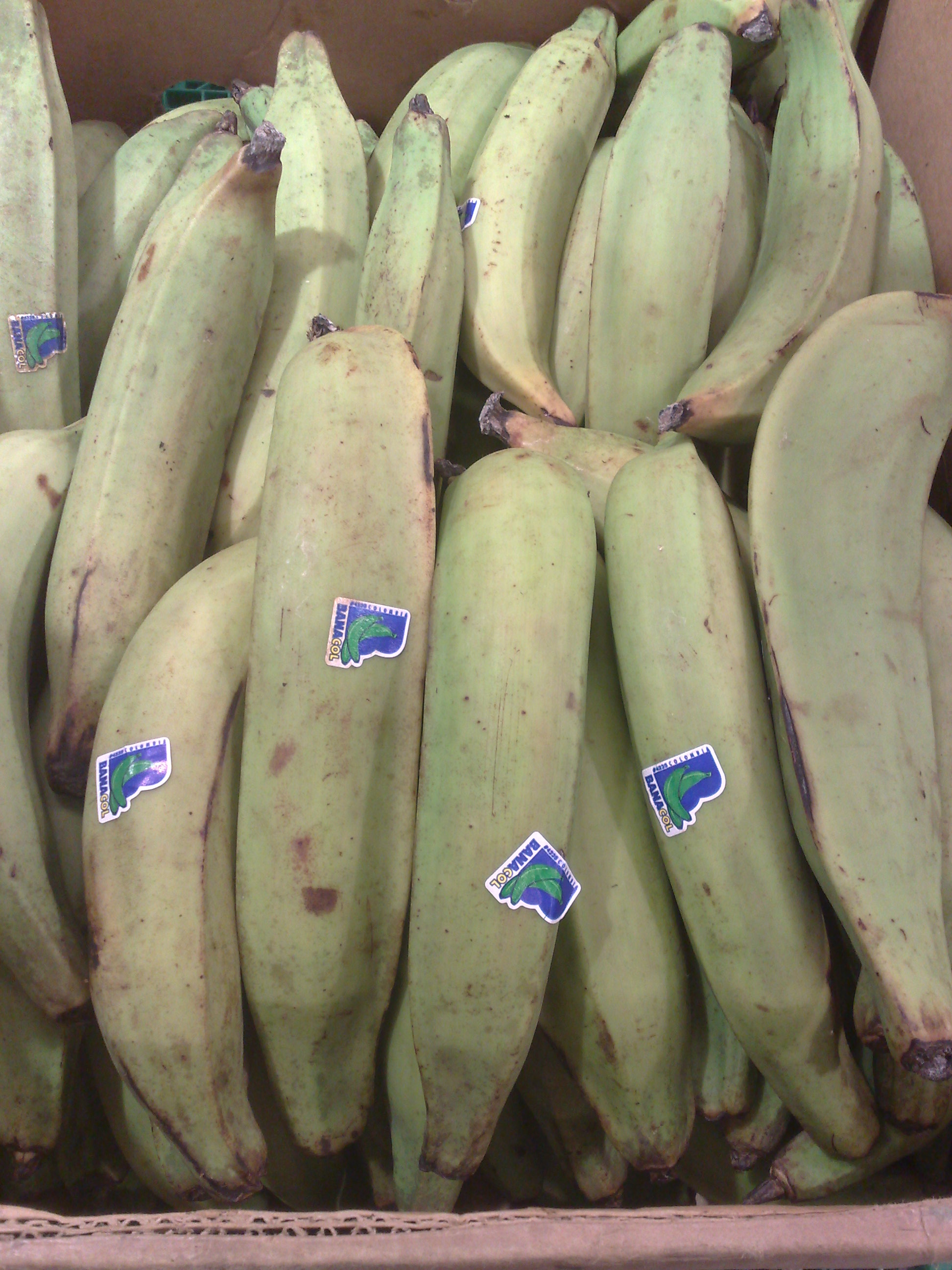 Plantains in a foodstore in Norway.